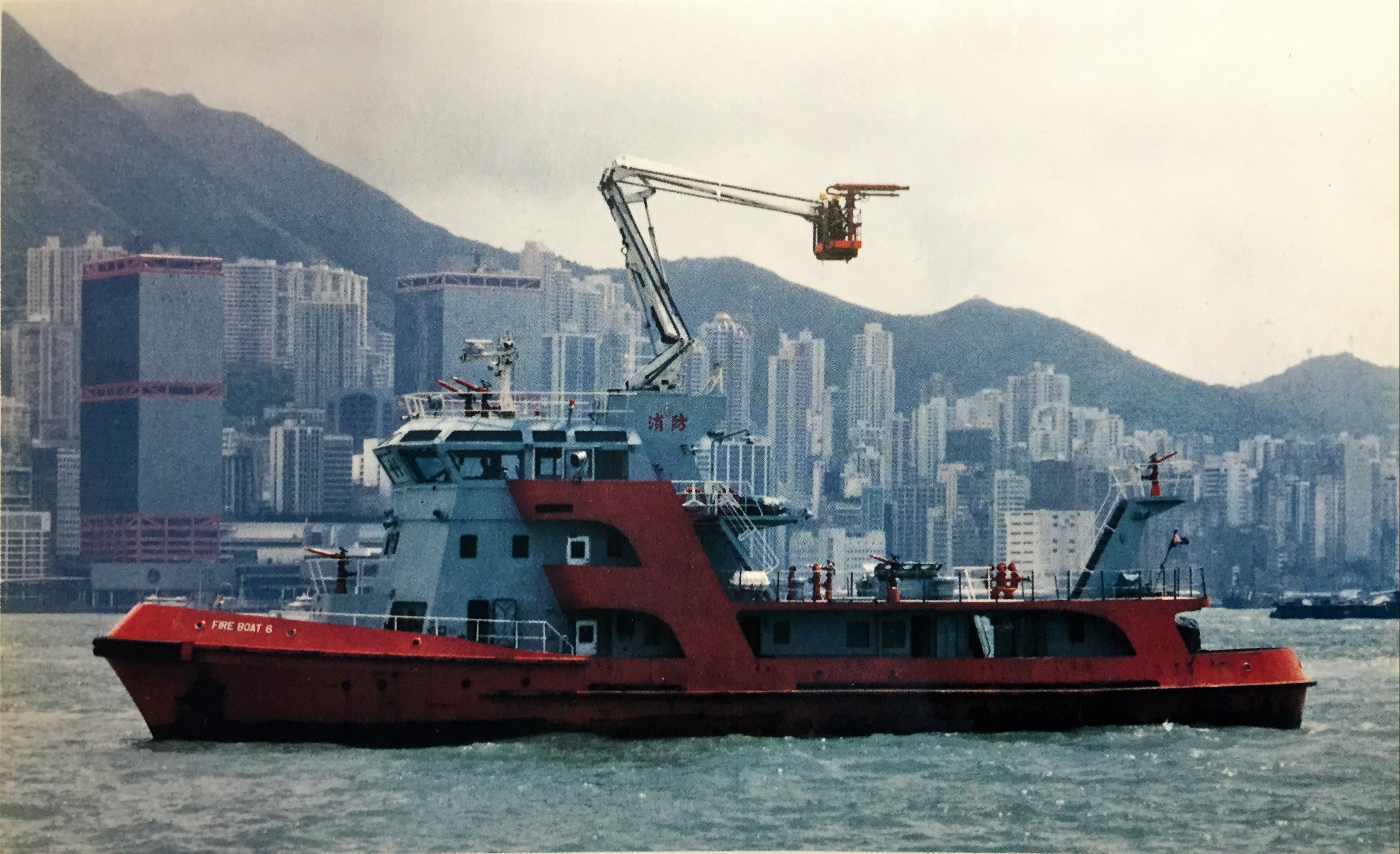 Fireboat No.6 (Before Modification) In service:1981-2005 Builder:Hong Kong Chung Wah Shipbuilding Operators:Hong Kong Fire Service Department